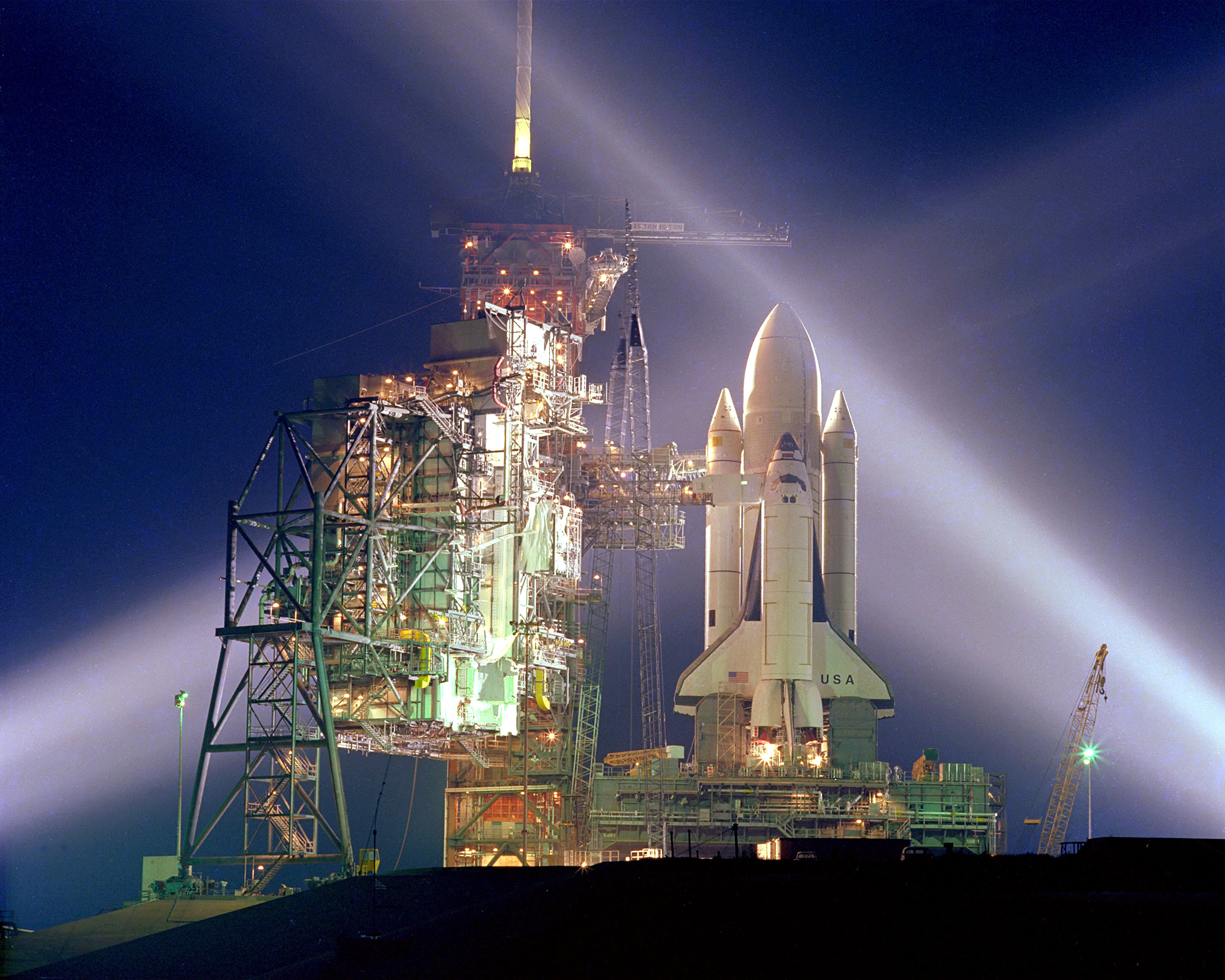 A timed exposure of the first Space Shuttle mission, STS-1, at Launch Pad A, Complex 39, turns the space vehicle and support facilities into a night-time fantasy of light. To the left of the Shuttle are the fixed and the rotating service structures.